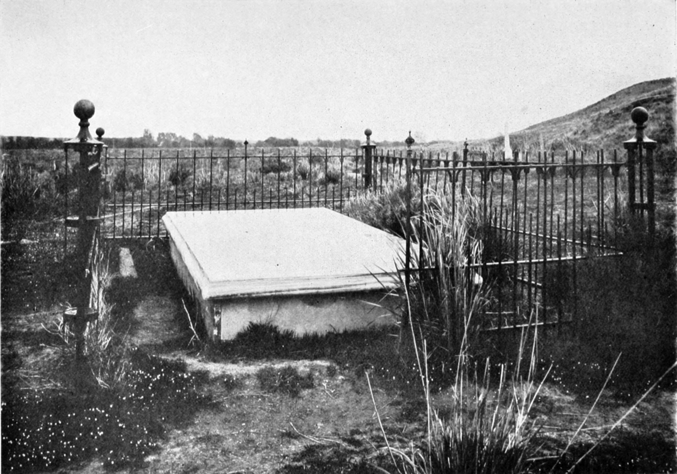 Grave site of Marcus Whitman and his associates. Image from The Columbia River: Its History, Its Myths, Its Scenery, Its Commerce.